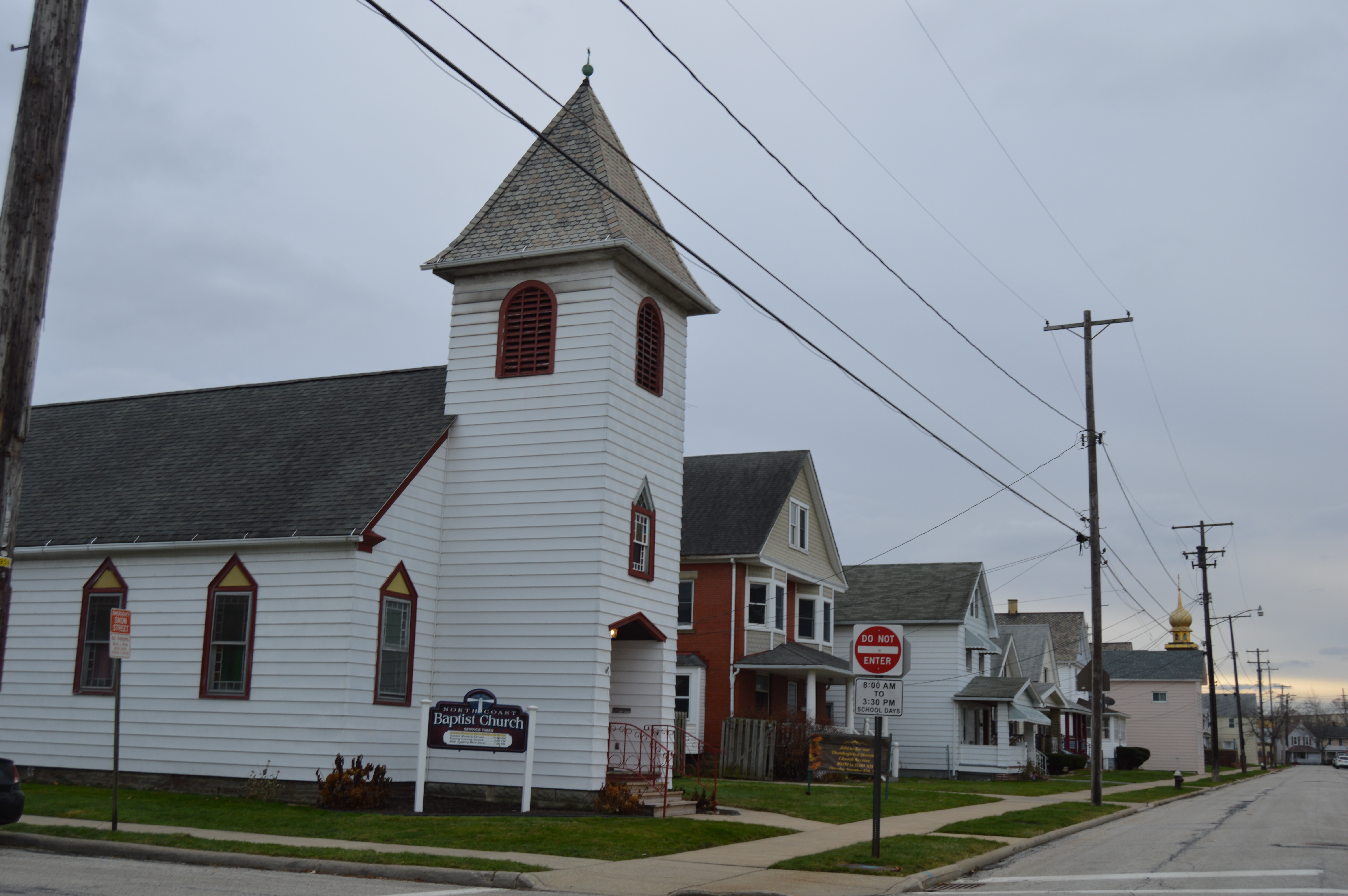 Looking south on Quail Street at the Thrush Street intersection in Lakewood, Ohio, United States. Close to the camera is the North Coast Baptist Church, while St. Nicholas' Ukrainian Orthodox Church is visible in the distance. This neighborhood is part of the Birdtown Historic District, a historic district that is listed on the National Register of Historic Places.